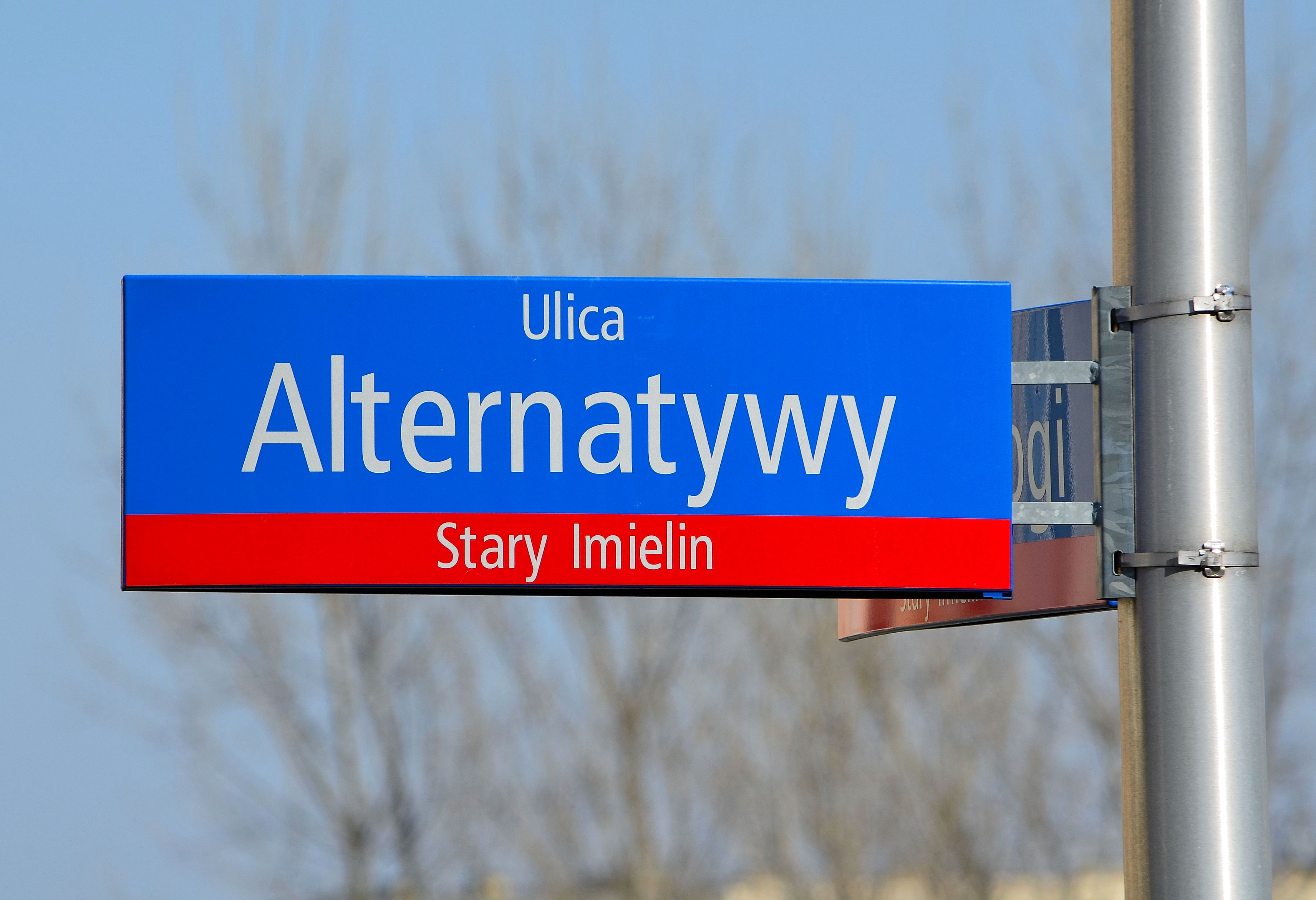 Warsaw City Information street sign at the intersection of Alternatywy and Polskie Drogi Streets